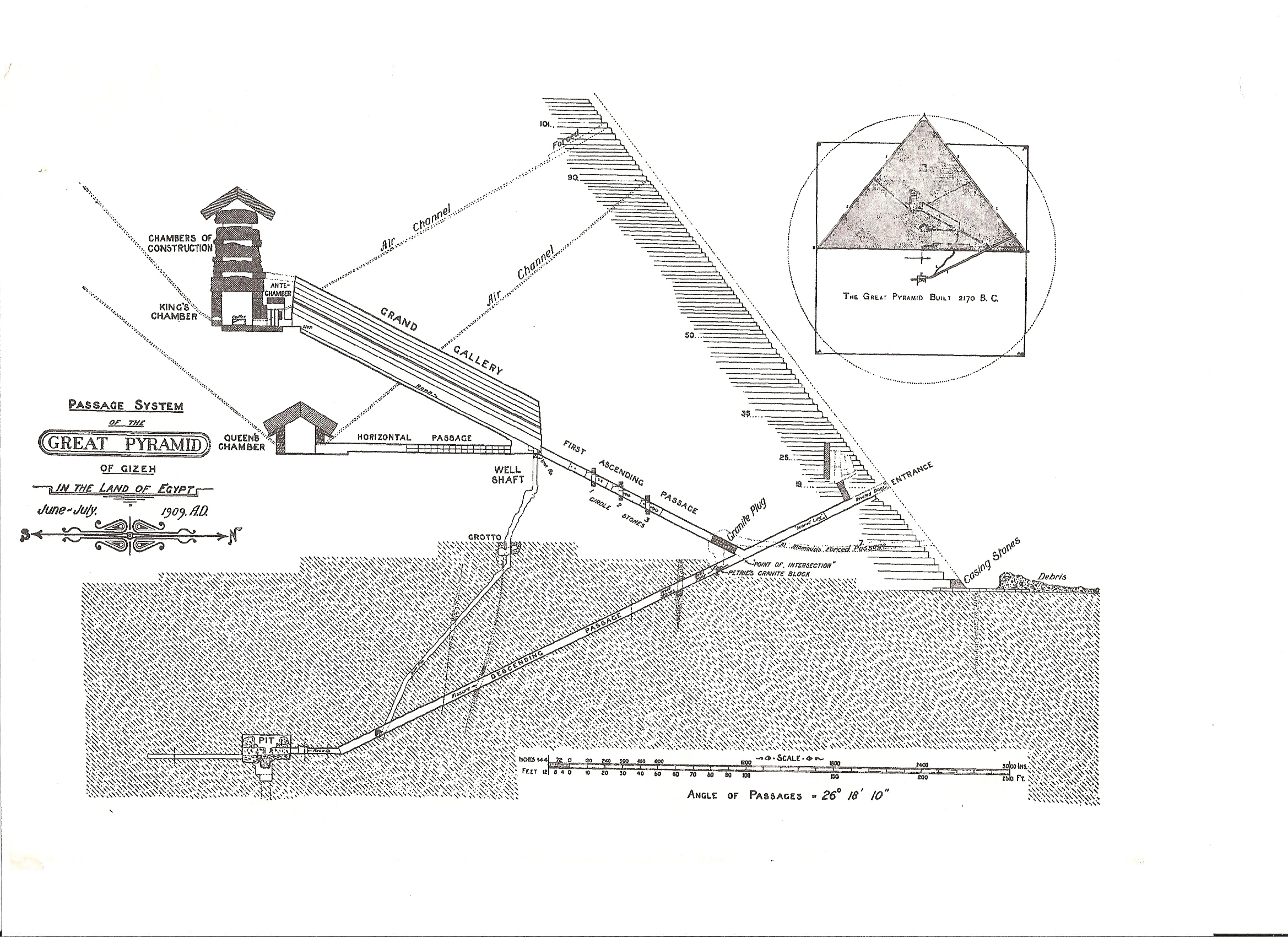 Interior passages of the Great Pyramid of Gizeh as studied by John and Morton Edgar in 1909. This is taken from the 1911 Bible Students Convention Report and is now in the public domain. John and Morton Edgar were prominent Bible Students in association with Charles Taze Russell, who founded the movement now known as Jehovah's Witnesses. At time of creation they focussed on soemthing called Pyramidology. That was much later on removed from the movement.